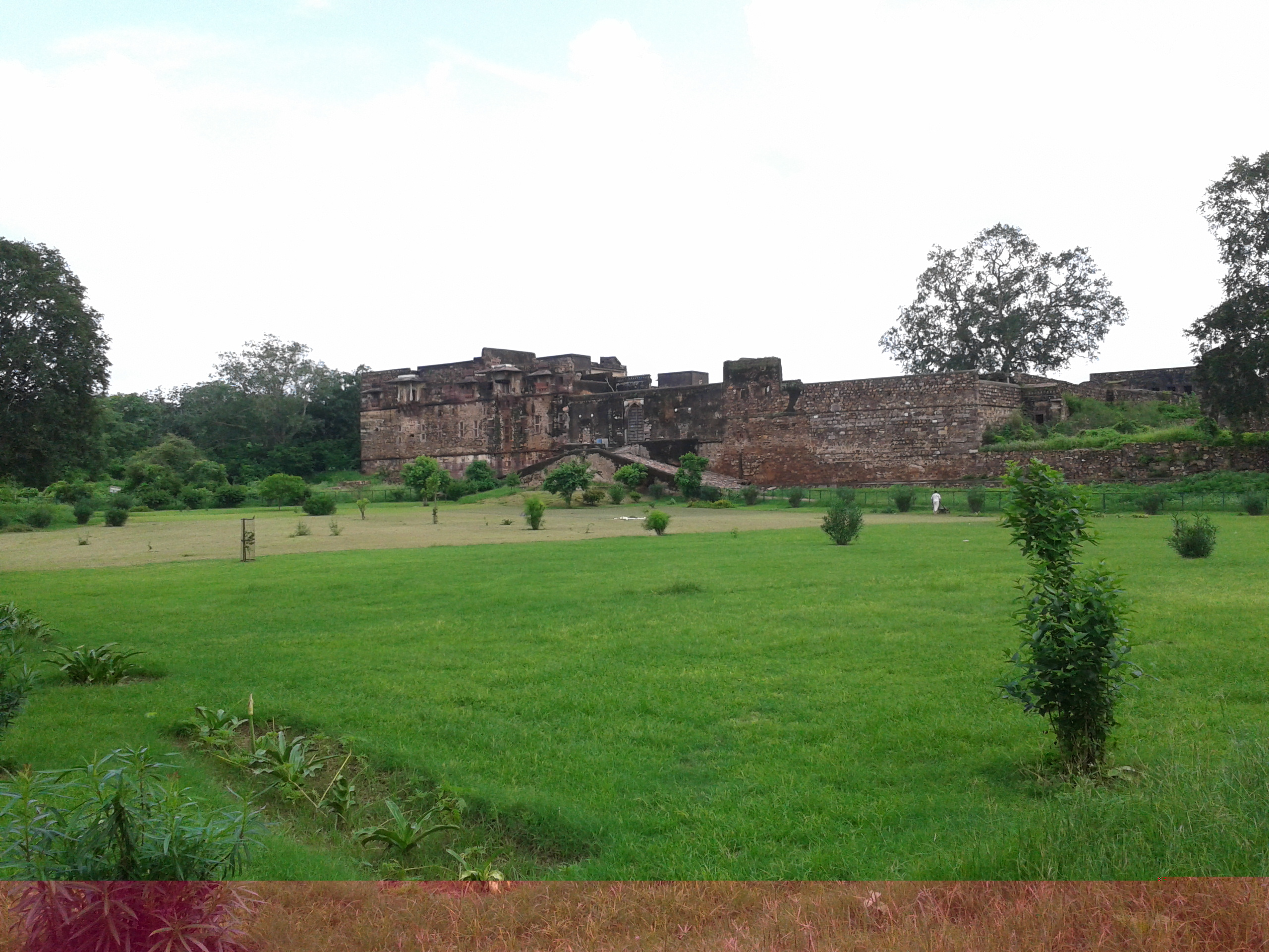 very beutiful hammir palace with garden in ranthambor fort.